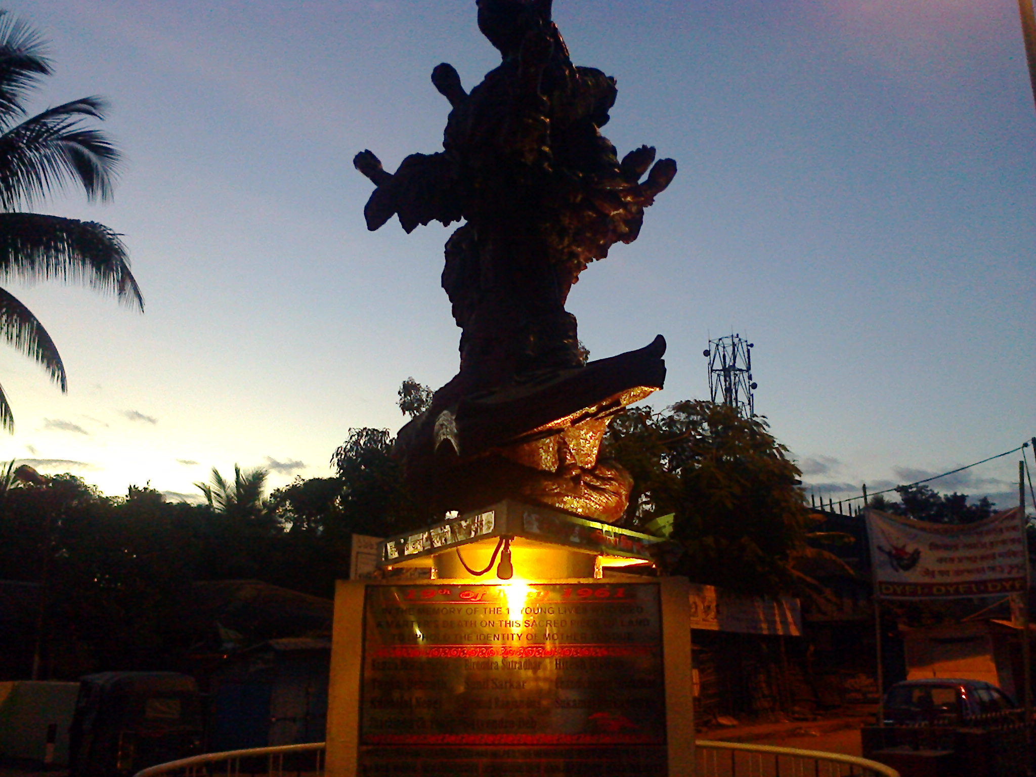 Language Martyr's Memorial at Silchar Railway Station